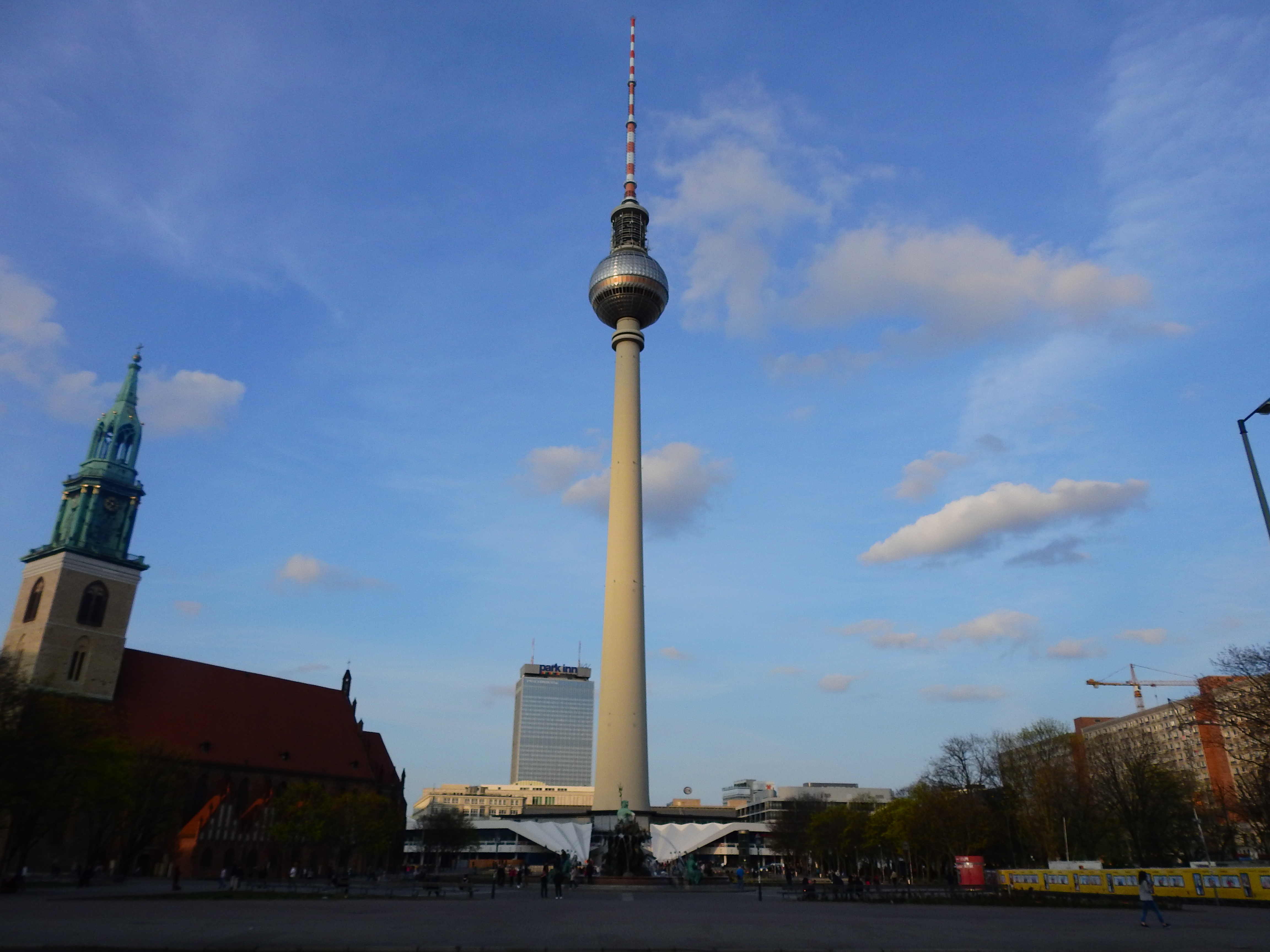 Wikimedia Conference 2017 in Berlin, Germany.